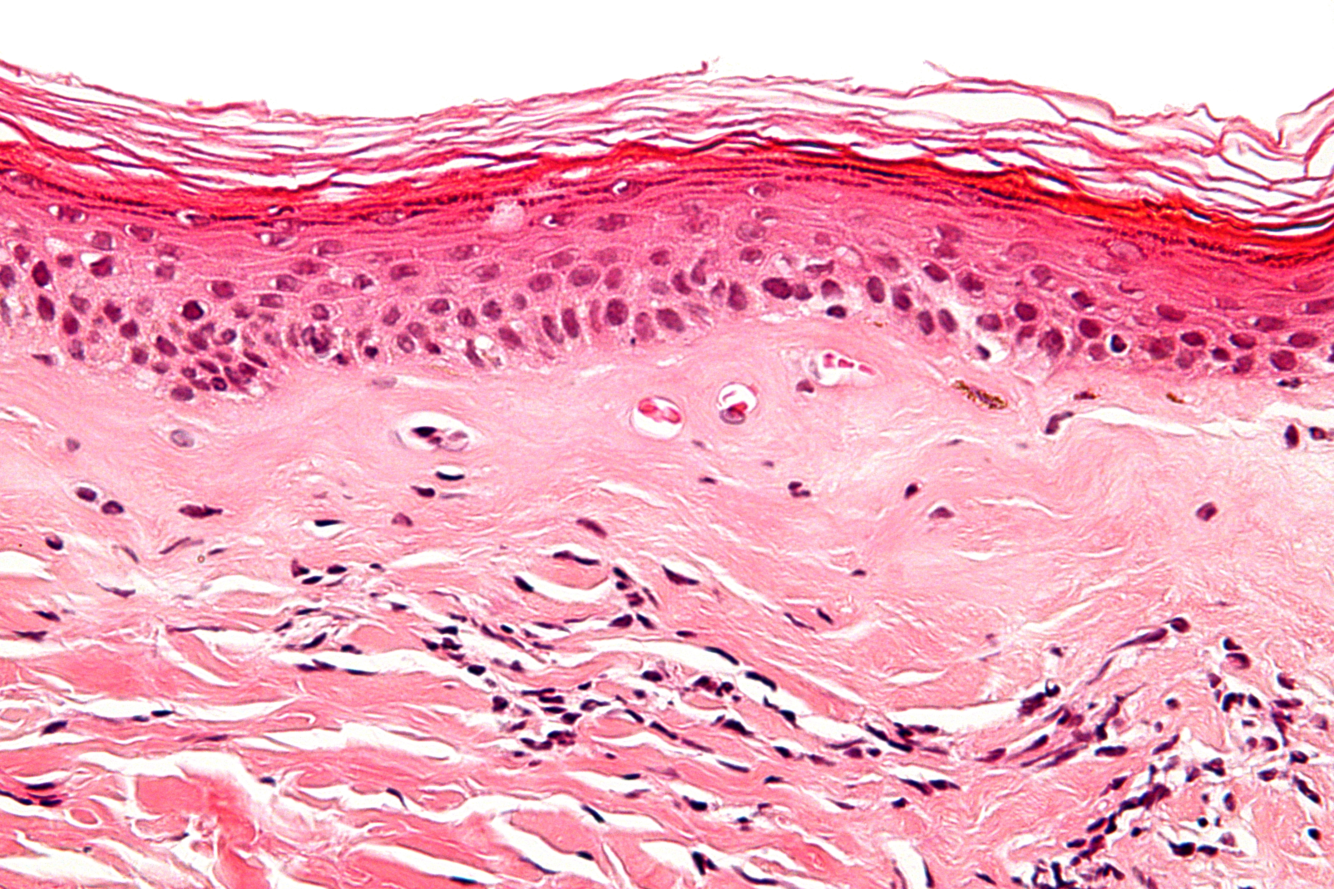 Very high magnification micrograph of lichen sclerosus, also lichen sclerosus et atrophicus. H&E stain. Related images Low mag. Intermed. mag. High mag. Very high mag.